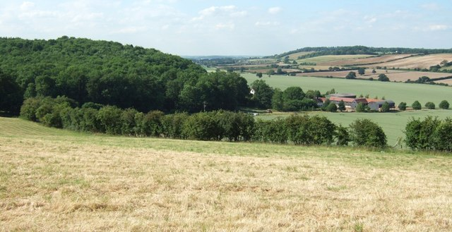 Lamsey Farm. Taken from near Church Farm which is near the church in Little Gaddesden looking northwards. Lamsey Farm is to the right, the wood is Hoo Wood. The beginnings of Dunstable Downs are in the background.